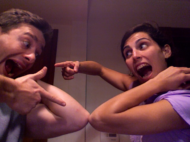 A male and female performing the elbow bump gesture, a common informal greeting.